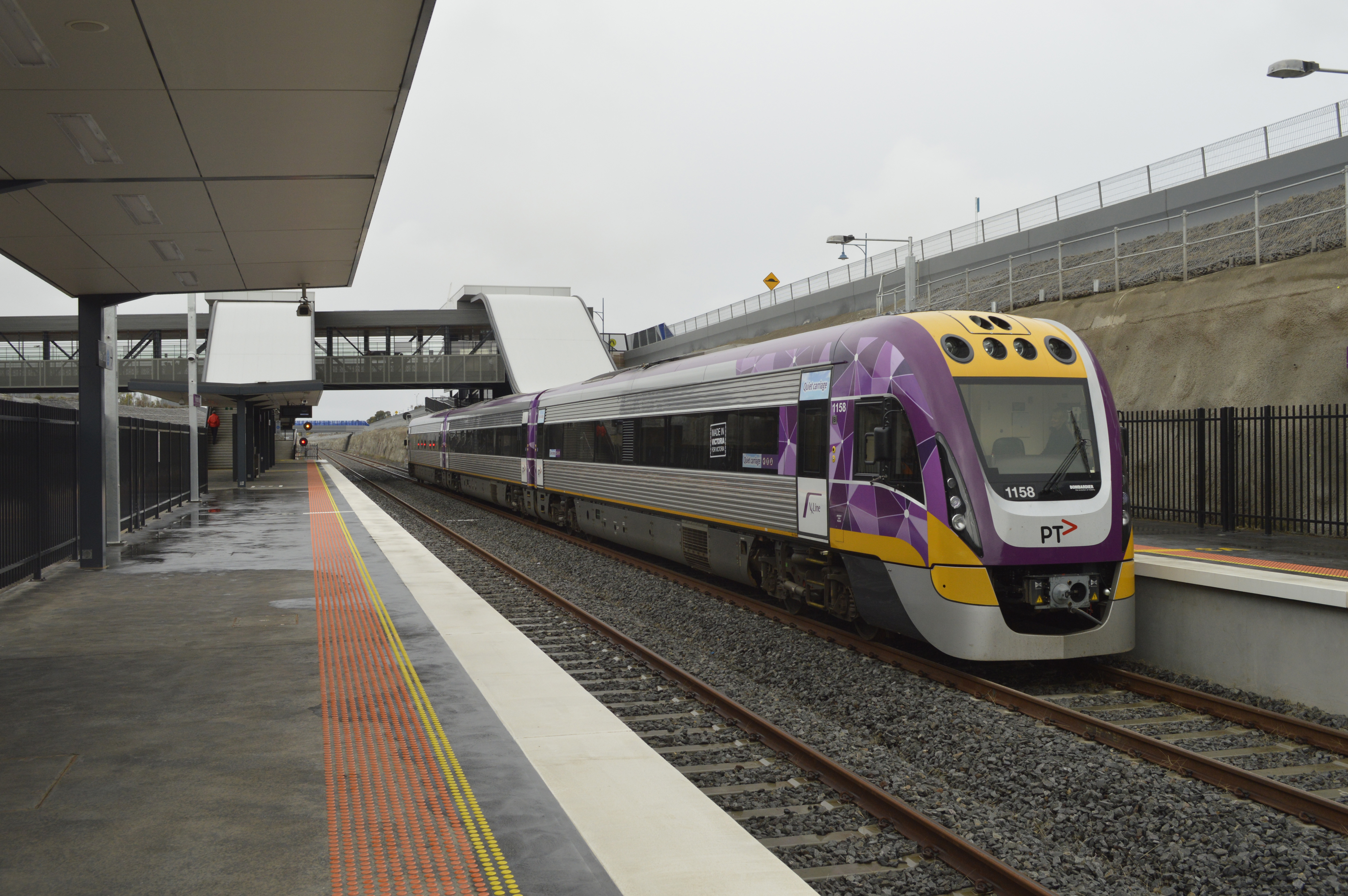 Looking south in June 2015.